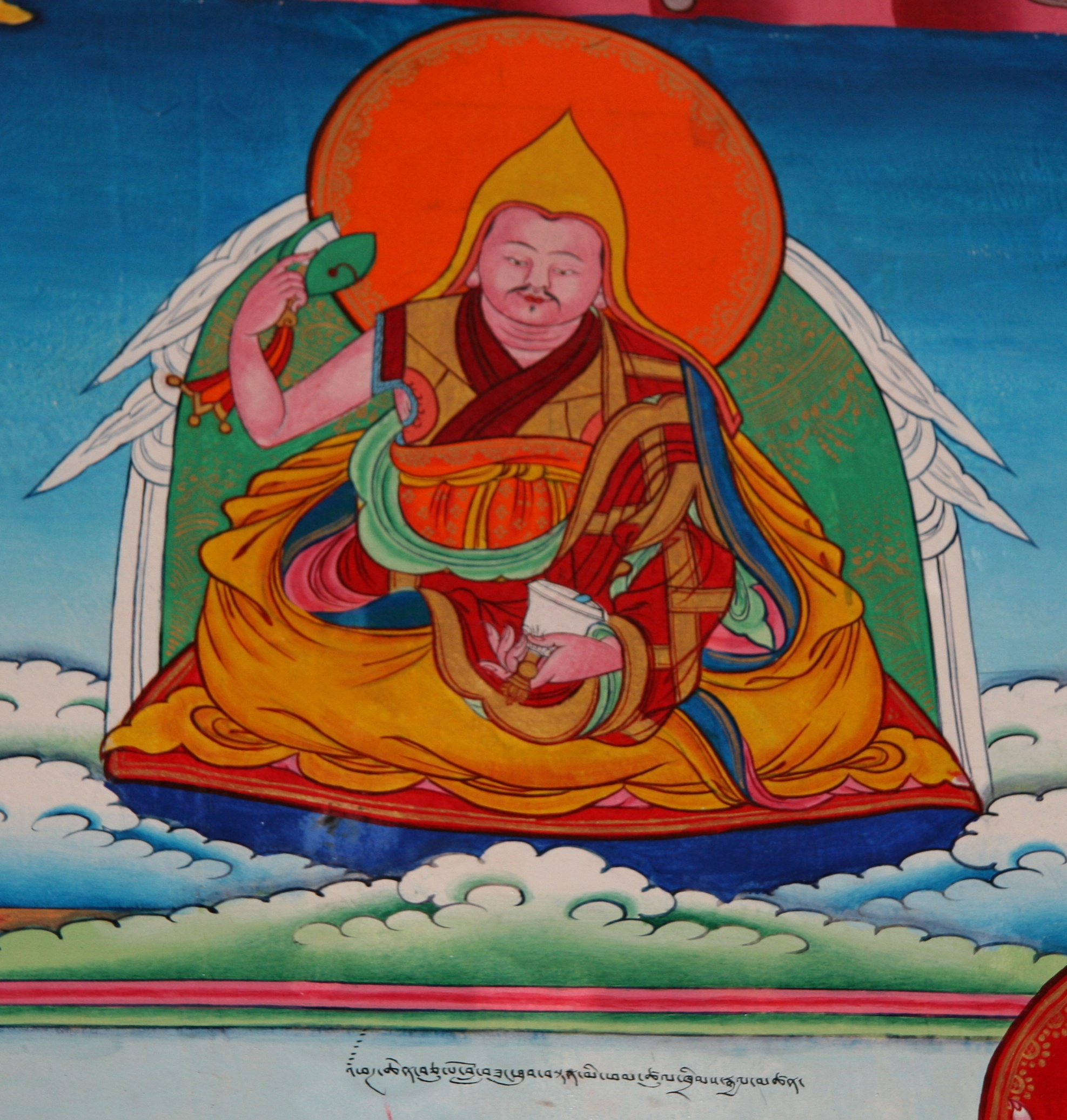 The Sixth Pakpa Lha, Jigme Tenpai Gyatso b.1714 - d.1754